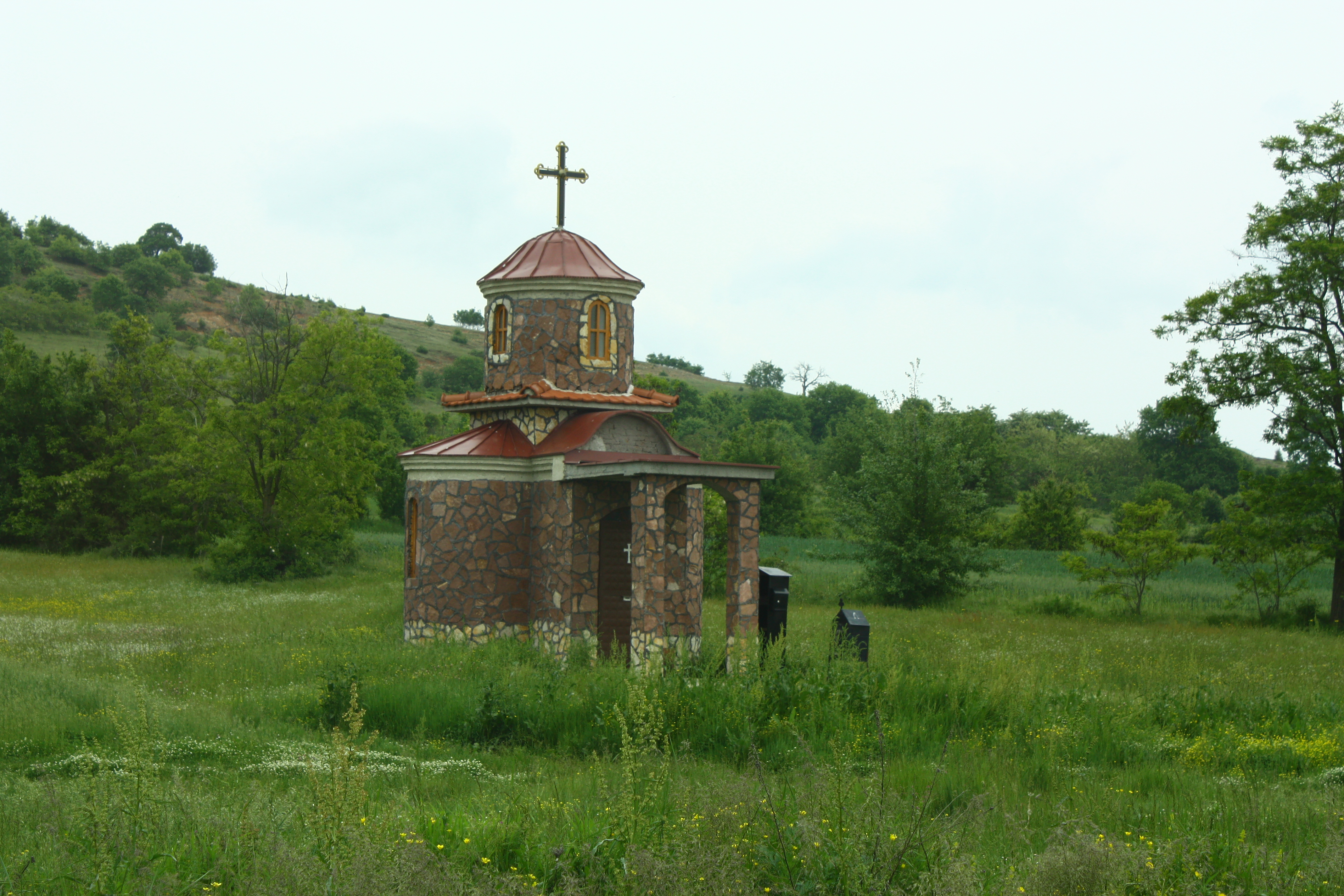 St. Michael the Archangel Church in Ropotovo, Macedonia